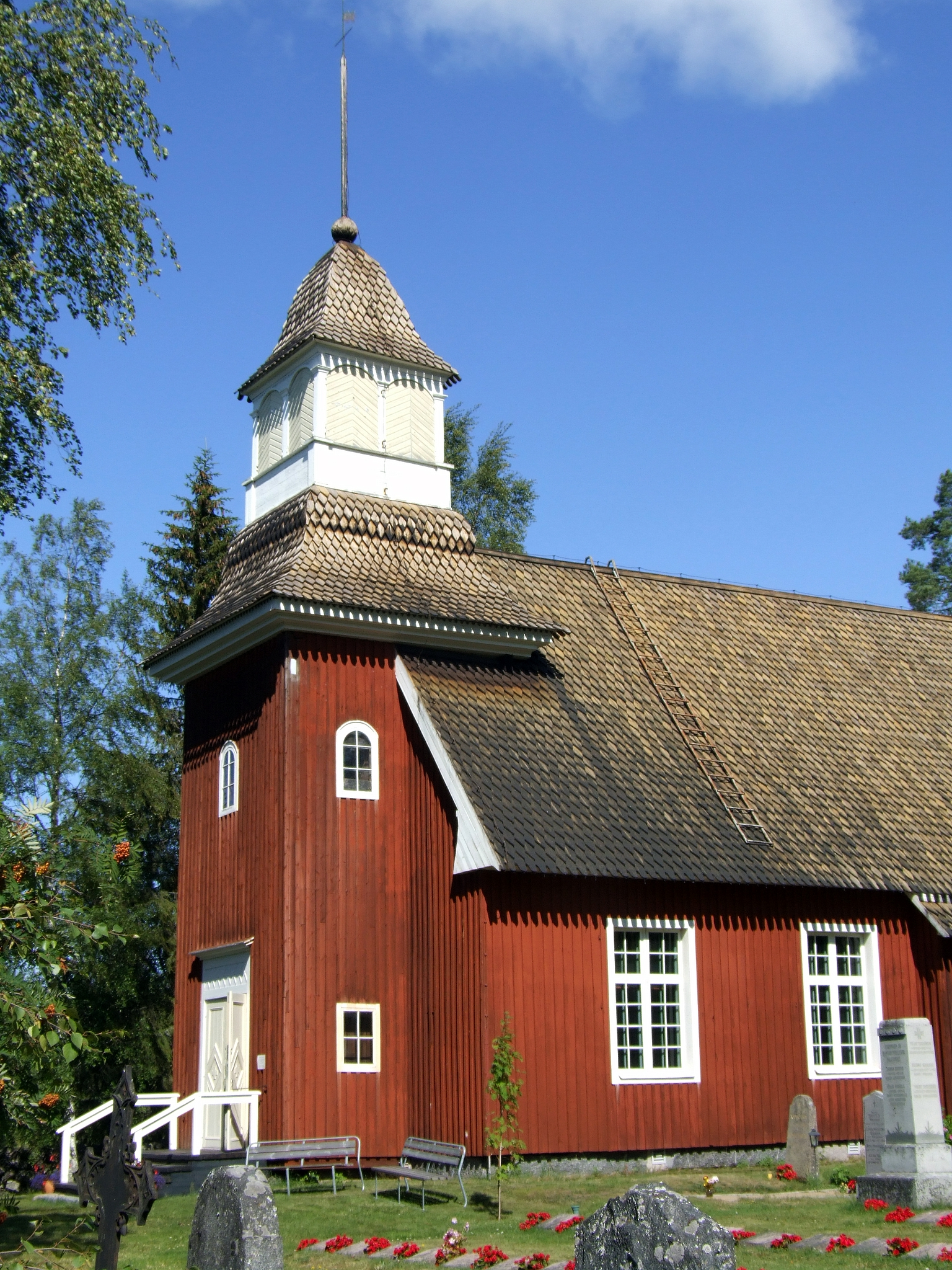 The wooden church in the village of Temmes in Northern Ostrobothnia was compeleted in 1767.